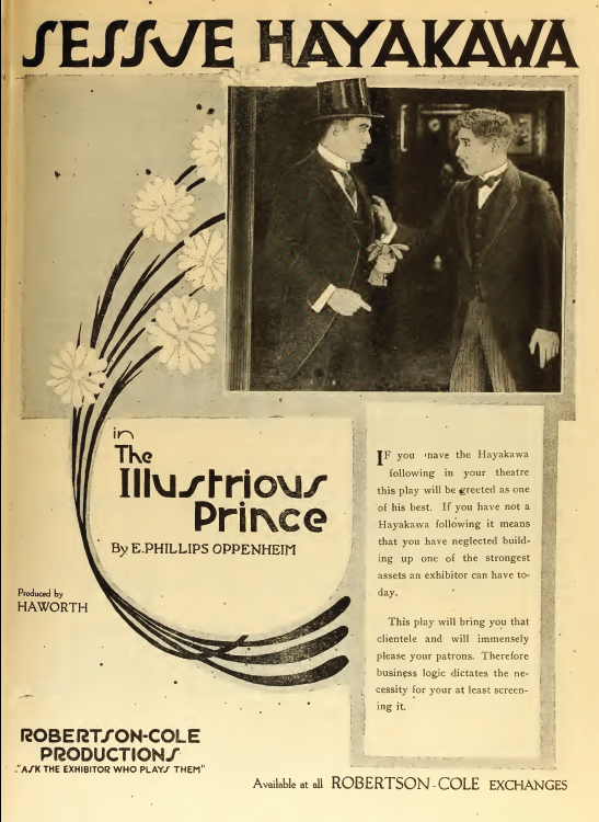 Ad with Sessue Hayakawa in The Illustrious Prince (1919).